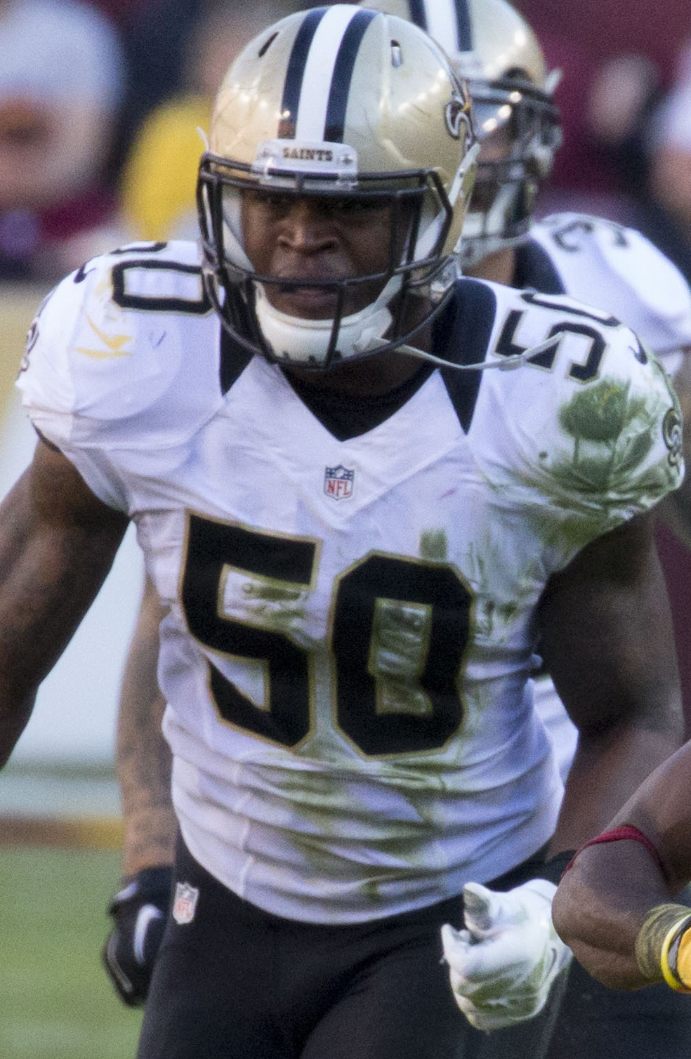 Saints at Redskins 11/15/15